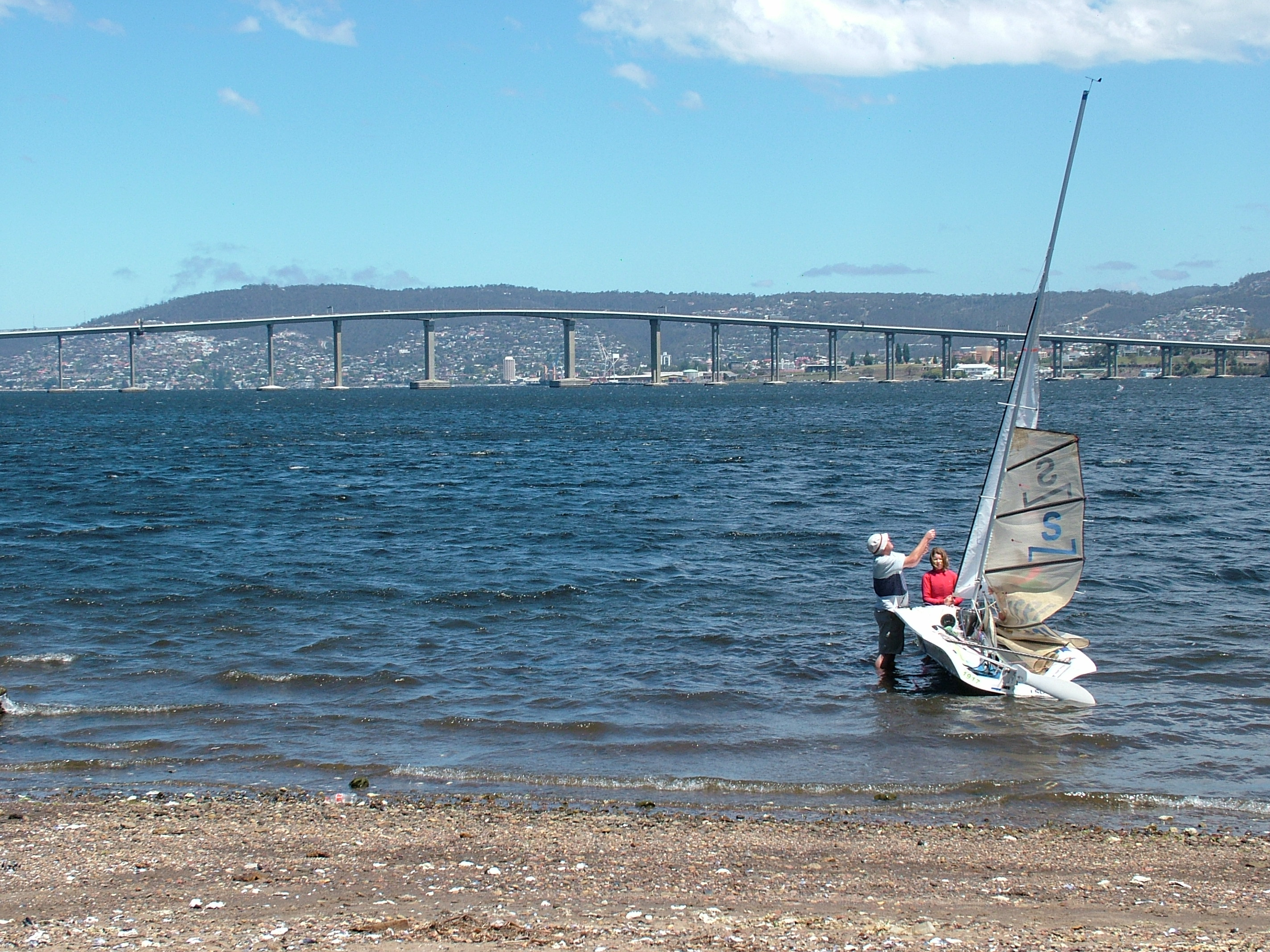 View of the River Derwent, showing an NS14 sailing dinghy, named Slobber Nuzzle Guzzle, owned by local sailing and rugby legend Tim Mitchell, with the Tasman Bridge and Hobart, Tasmania, Australia, in the background.